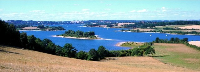 Lac de Pareloup, les îles